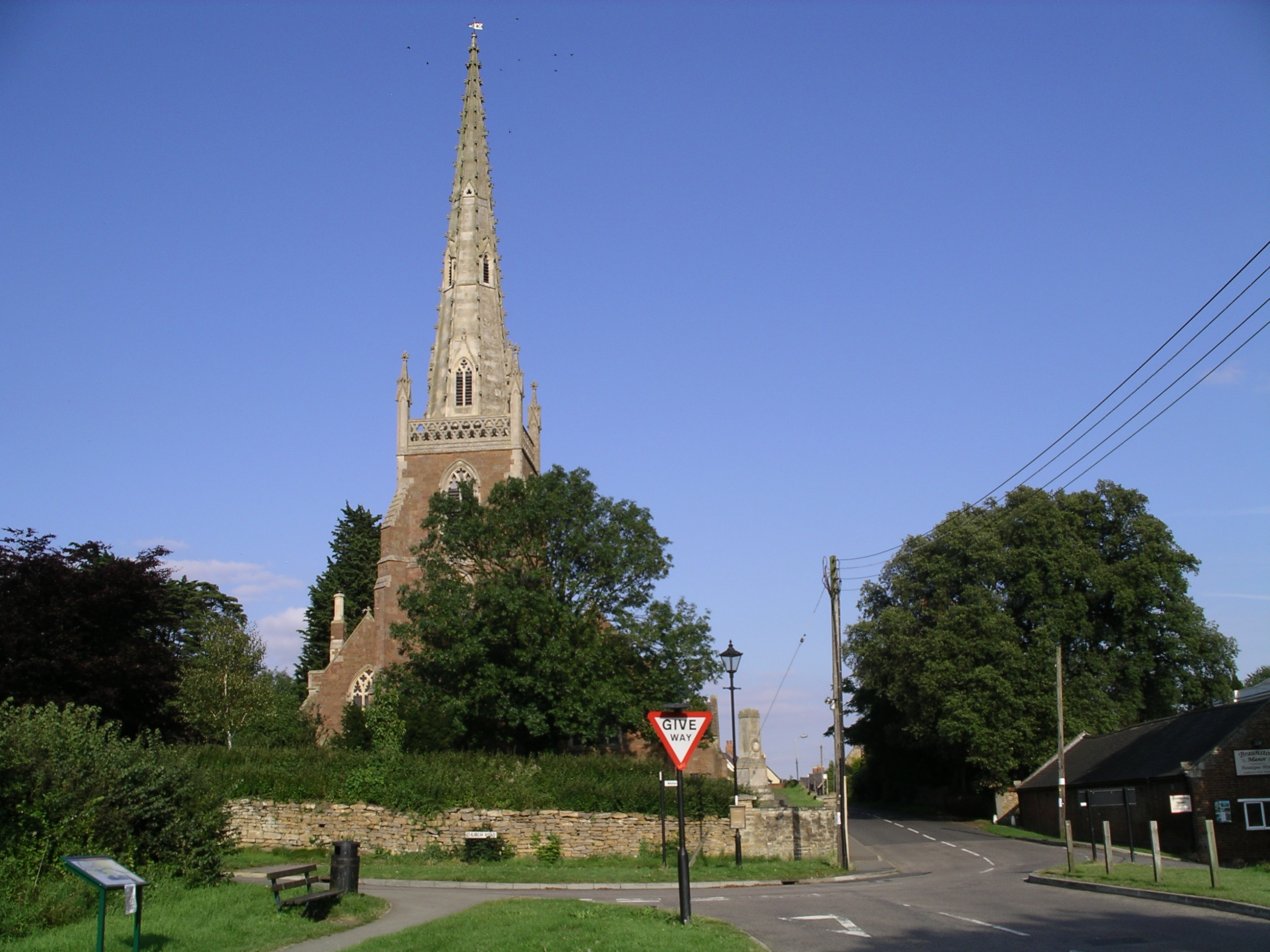 Photo of the church in Braunston, Northamptonshire, England.